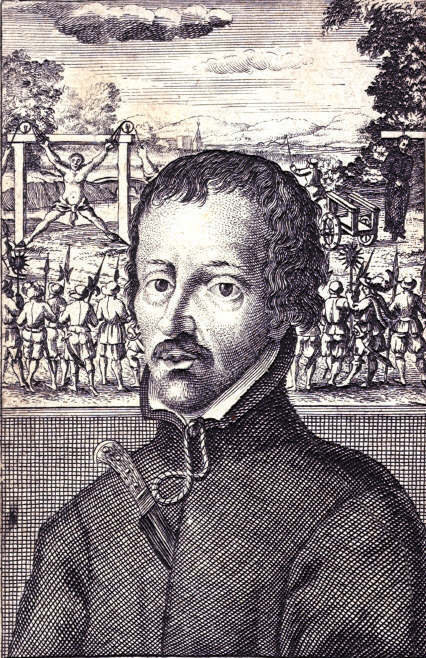 St. Edmund Campion (1540-81). English Jesuit. Portrait. Hanged in London.